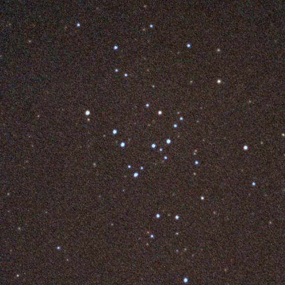 Coma Star Cluster (Melotte 111) Taken by Richard Bullock